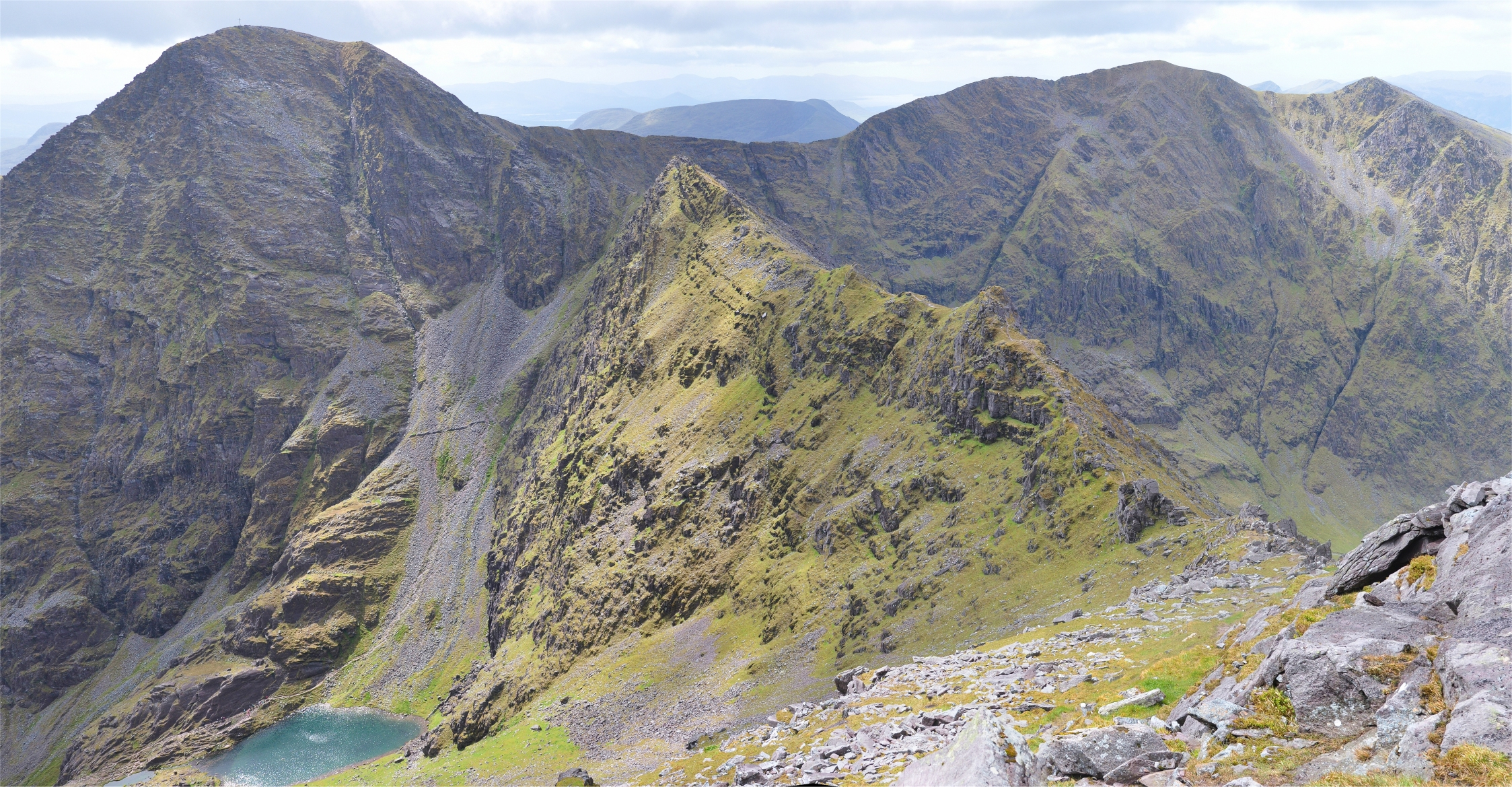 Photograph taken from the summit of Beenkeragh showing the Beenkeragh Ridge to Carrauntoohil, with The Bones summit in the centre of the ridge; Caher Ridge is in the background showing Caher East Top and Caher West Top